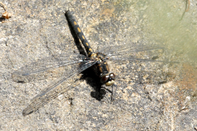 Picture taken in Commanster, Belgian High Ardennes . Species: Leucorrhinia dubia female